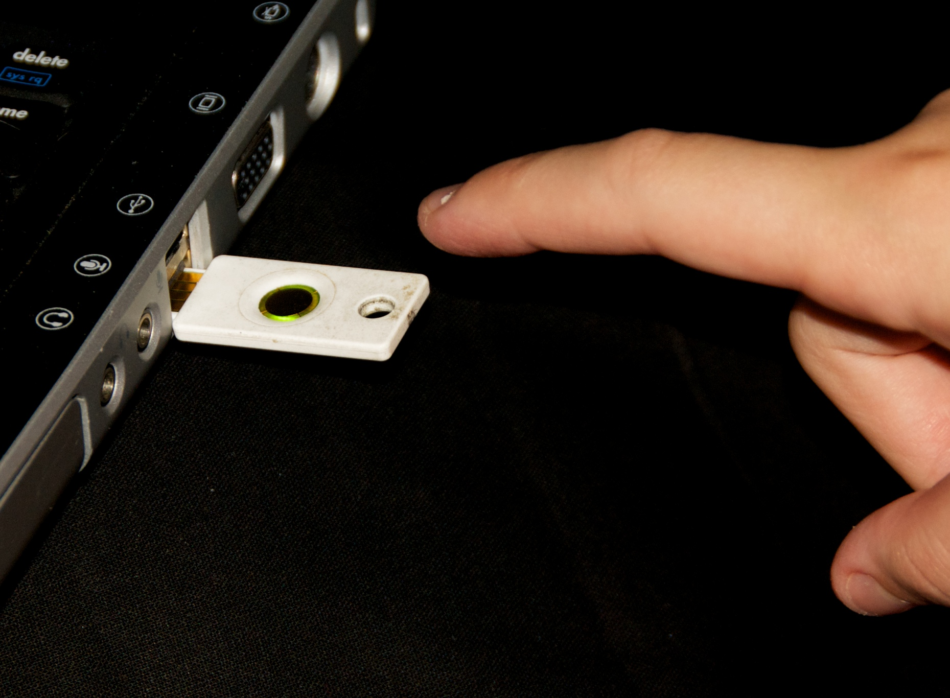 Photo of Yubikey Two-Factor authentication token in use